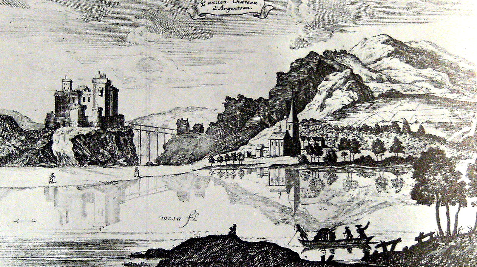 Castel of Argenteau before destruction 1688, Liège